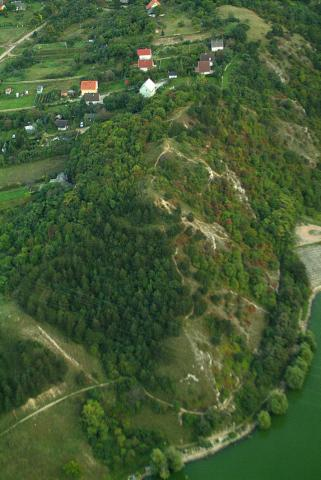 Kincsesbánya, Hungary, aerialphotography